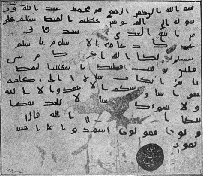 Note that this is not a reproduction of the actual document; it is a reproduction of a drawing of the document for the newspaper Al-Hilal in 1904. The original document is now kept in Topkapi museum, its state of preservation can be seen in this photograph. "LETTER OF THE PROPHET TO THE “MUKAUKIS,” DISCOVERED BY M. ÉTIENNE BARTHÉLÉMY; BELIEVED BY SEVERAL SCHOLARS TO BE THE ACTUAL DOCUMENT REFERRED TO IN THE TEXT. From the “Hilal,” Nov., 1904."